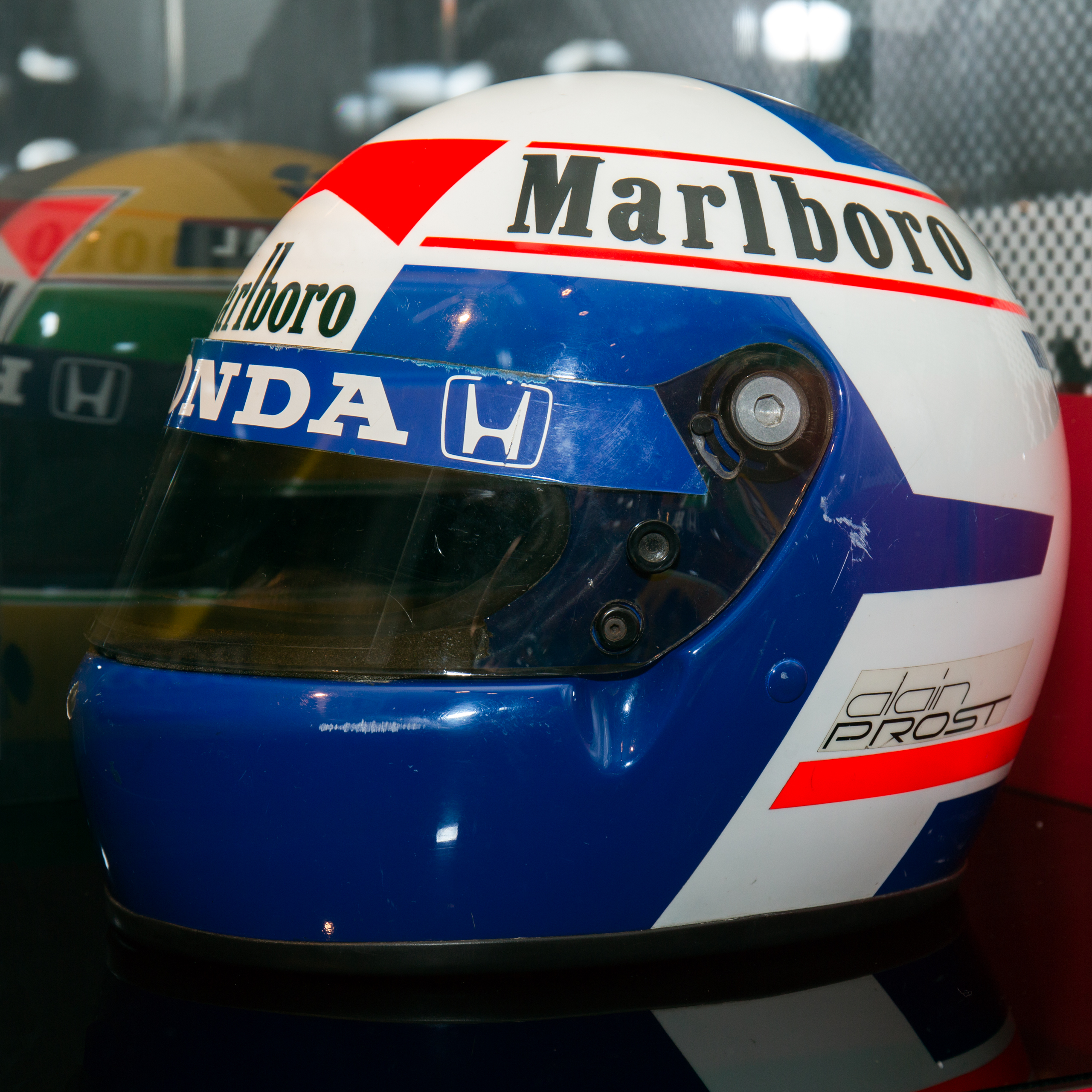 Alain Prost's 1988 helmet